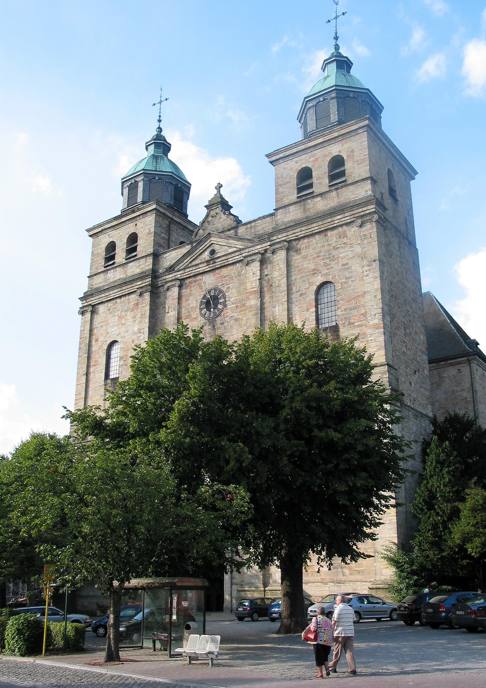 Malmedy (Belgium), the St. Pierre, Paul and Quirin Cathedral (1777).